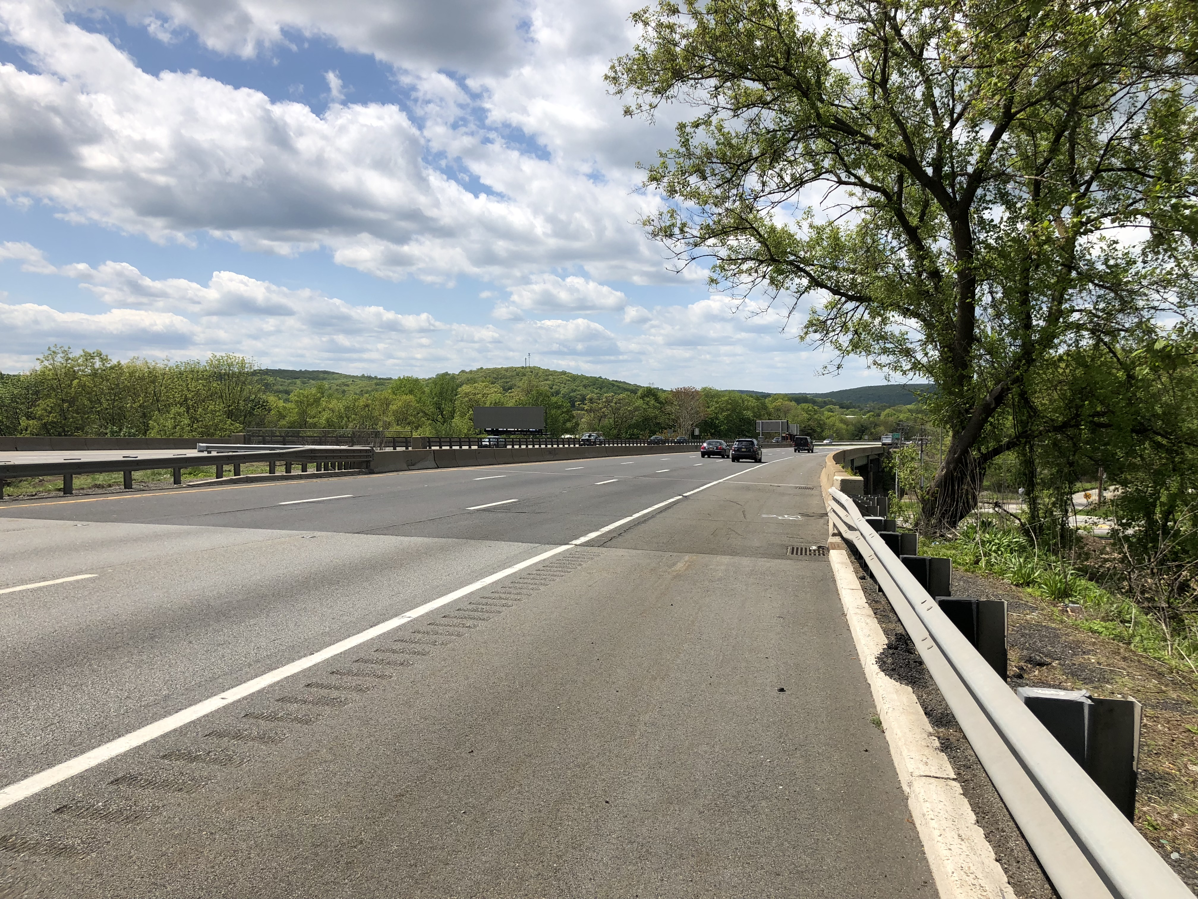 View west along Interstate 80 and north along U.S. Route 206 just northwest of Exit 26 in Netcong, Morris County, New Jersey